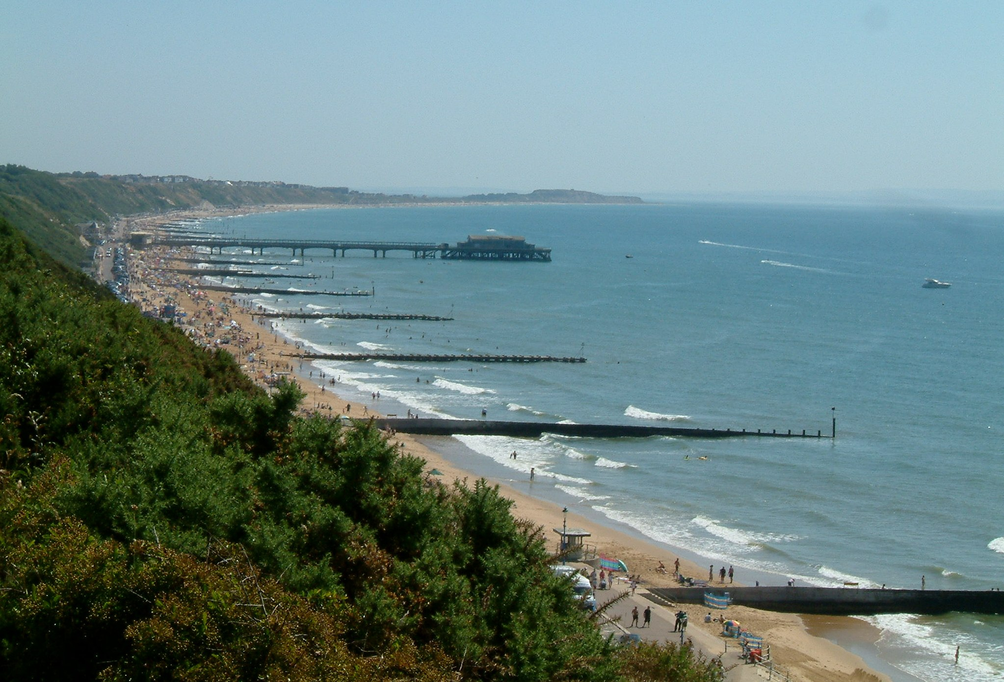 Bournemouth, England, United-Kingdom